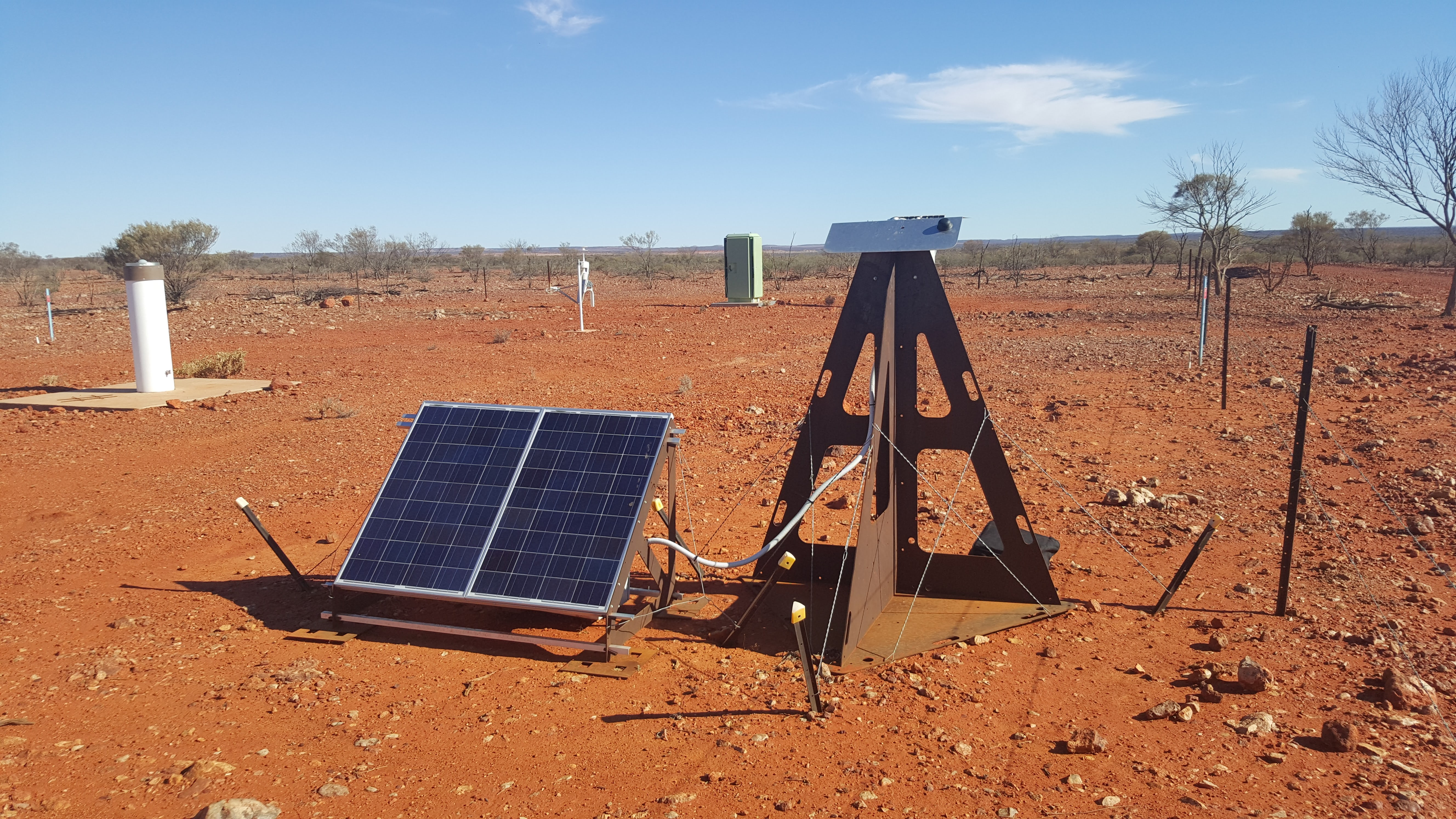 Solar panels and stand are topped by DFN observatory with heatshield and GNSS+GSM antenna clearly visisble.